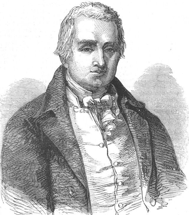 An engraving of William Cobbett, radical journalist and pamphleteer (1763-1835)